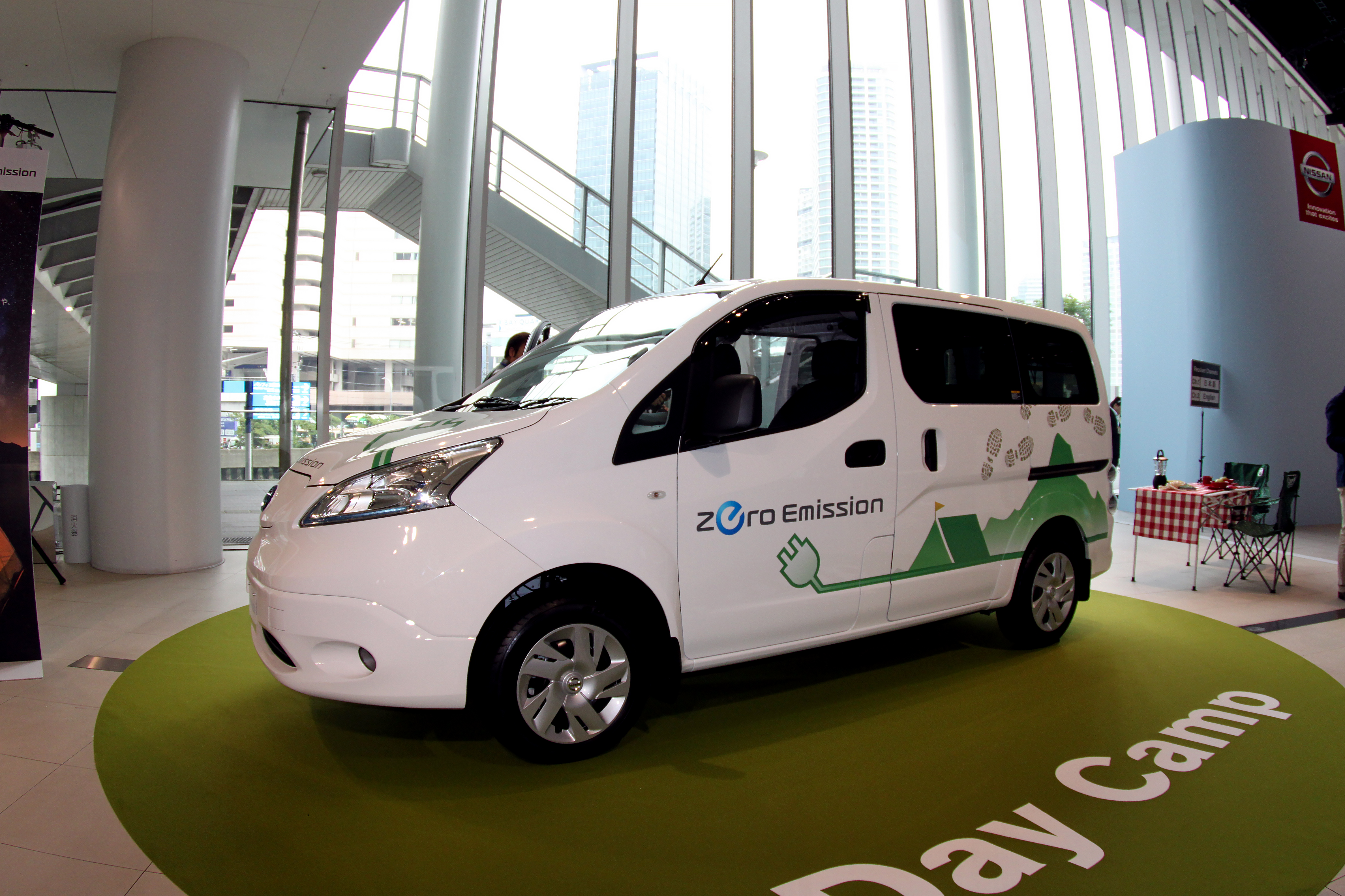 Nissan e-NV200 at launch event in Yokohama, 9 June 2014 - Picture by Bertel Schmitt